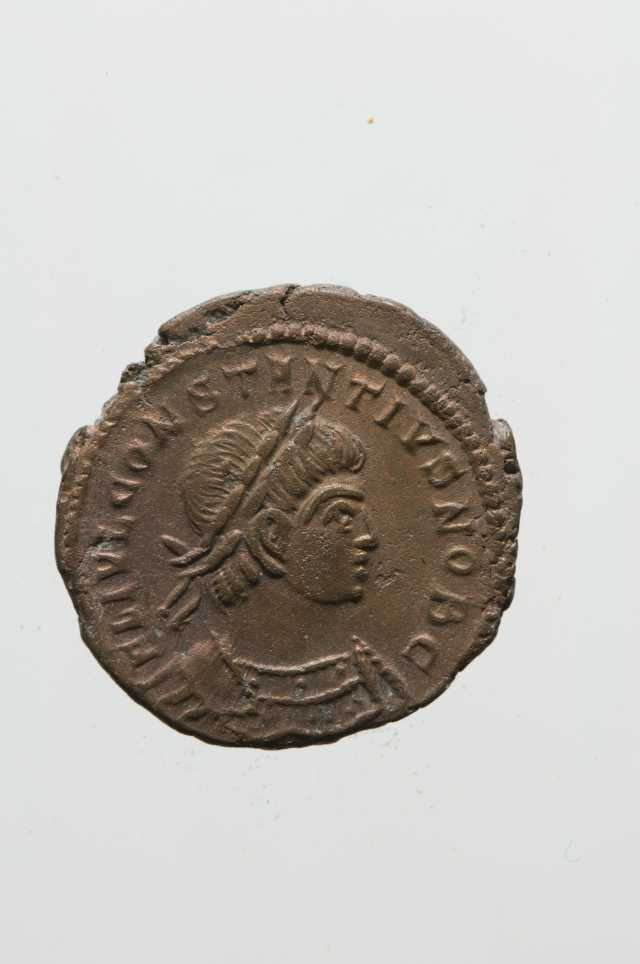 Author Photographed by: York Museums Trust StaffTitle Coin (nummus) of Constantine II from the Heslington HoardDate AD 300-335Medium Copper alloyDimensions weight=2.82 gCurrent location Yorkshire Museum Native nameYorkshire MuseumParent institutionYork Museums TrustLocationYork, England, United KingdomCoordinates53° 57′ 42.48″ N, 1° 05′ 14.78″ W Established1830Web pageOfficial siteAuthority control : Q2086562 VIAF: 131438444 ISNI: 0000 0001 2158 9166 LCCN: n86847797 Historic England: 1257100 SUDOC: 032523386 WorldCat institution QS:P195,Q2086562 NumismaticsAccession number YORYM : 2014.395.91Object history Part of the Heslington Hoard, found in York in 1966Exhibition history In the collection of the Yorkshire MuseumCredit line Image courtesy of York Museums TrustReferences CARSON, R., & KENT, J. (1971). A Hoard of Roman Fourth-Century Bronze Coins from Heslington, Yorkshire. The Numismatic Chronicle (1966-), 11, 207-225.Source/Photographer This file originated on the York Museums Trust Online Collection. YMT hosted a GLAMwiki partnership in 2013/14. This tag does not indicate the copyright status of the attached work. A normal copyright tag is still required. See Commons:Licensing for more information.